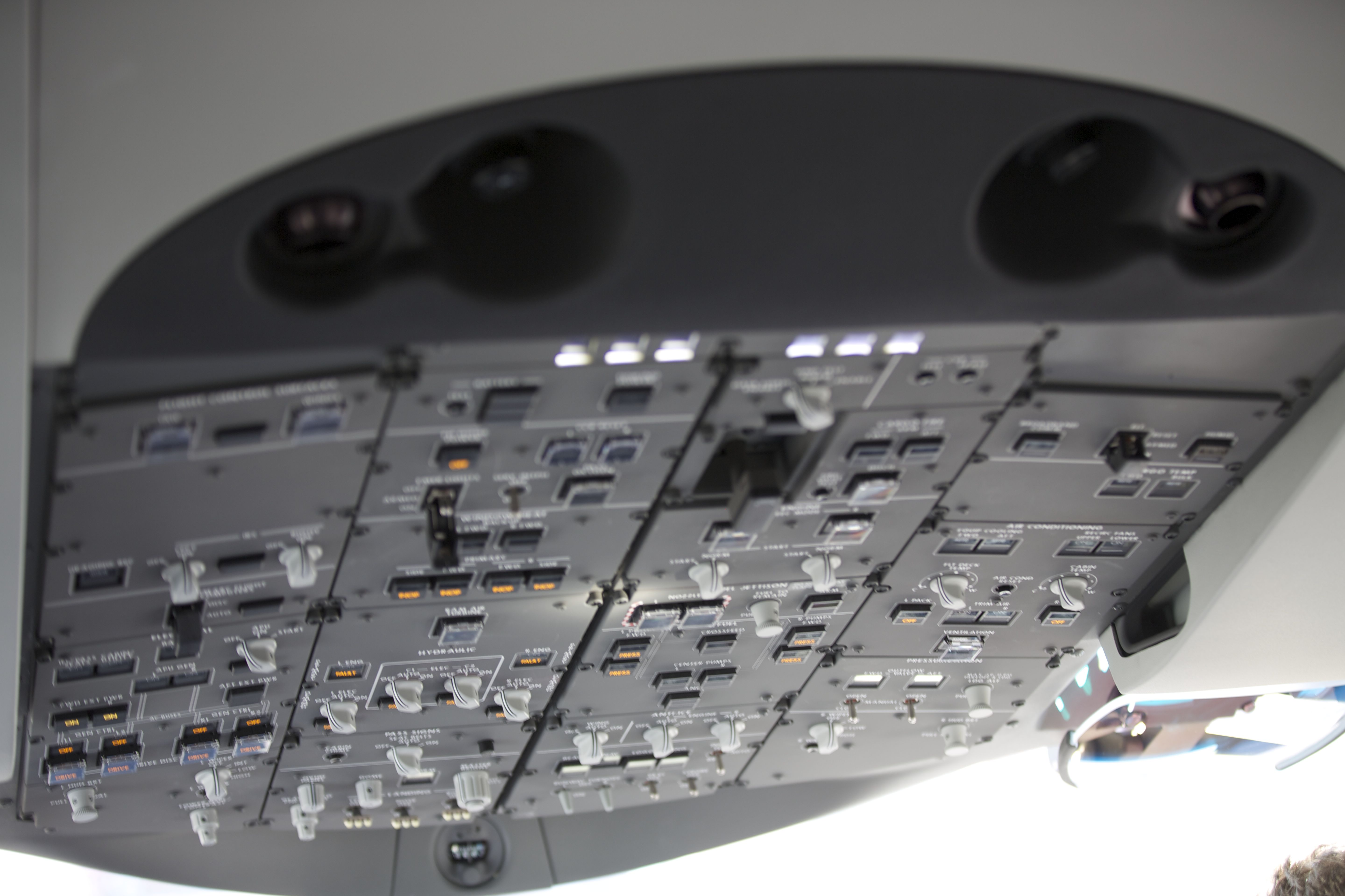 United 787 overhead panel KSEA AVGeek